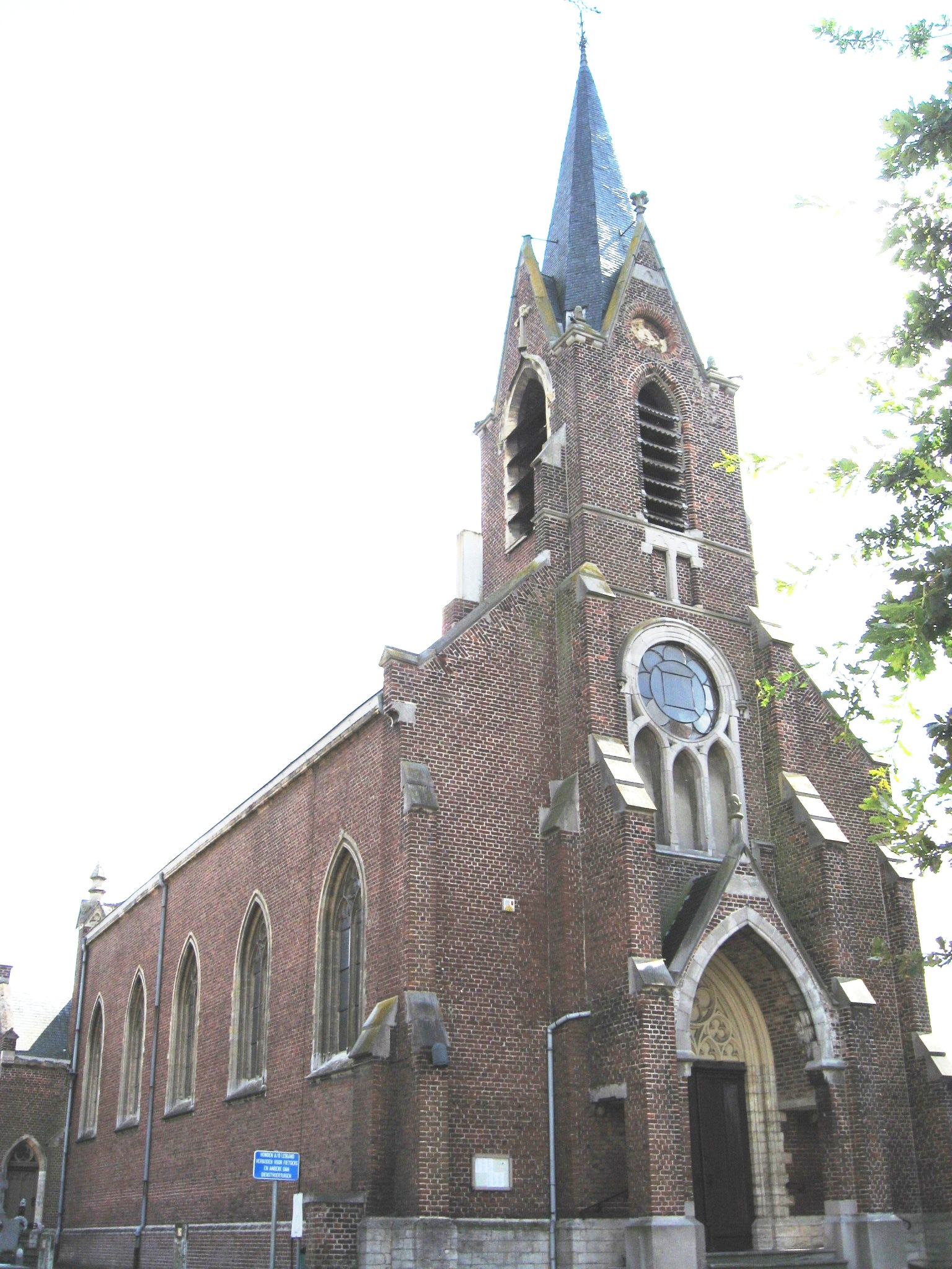 Church of Saint Herlindis and Relindis in Ordingen, Sint-Truiden, Limburg, Belgium